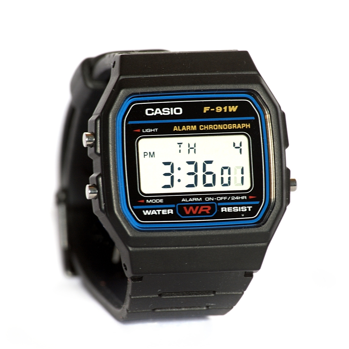 Casio F91W